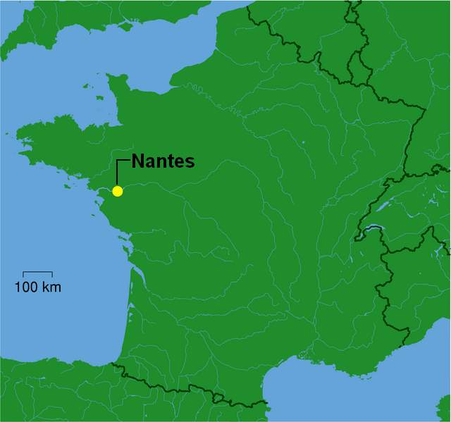 A locator map of Nantes, France. Based on Reims locator map, adapted for Nantes.